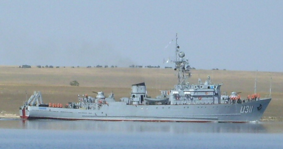 Cherkasy (U311) minesweeper at Novoozerno